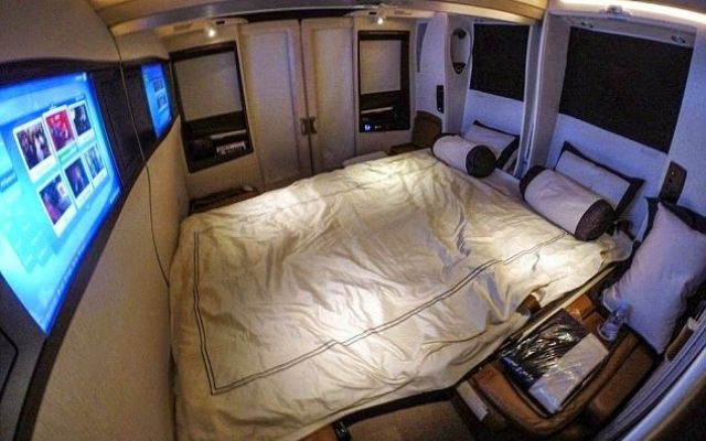 Singapore Airlines old suites on board Airbus A380.